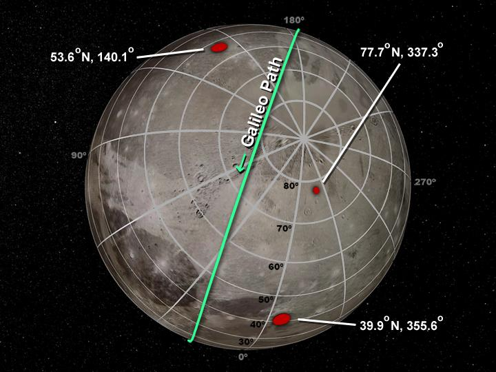 Lumps_within_Ganymede